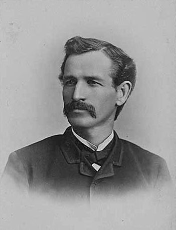 Edward Sturgis Ingraham, 1852—1926 - first superintendent of the Seattle Public Schools, mountaineer, environmentalist